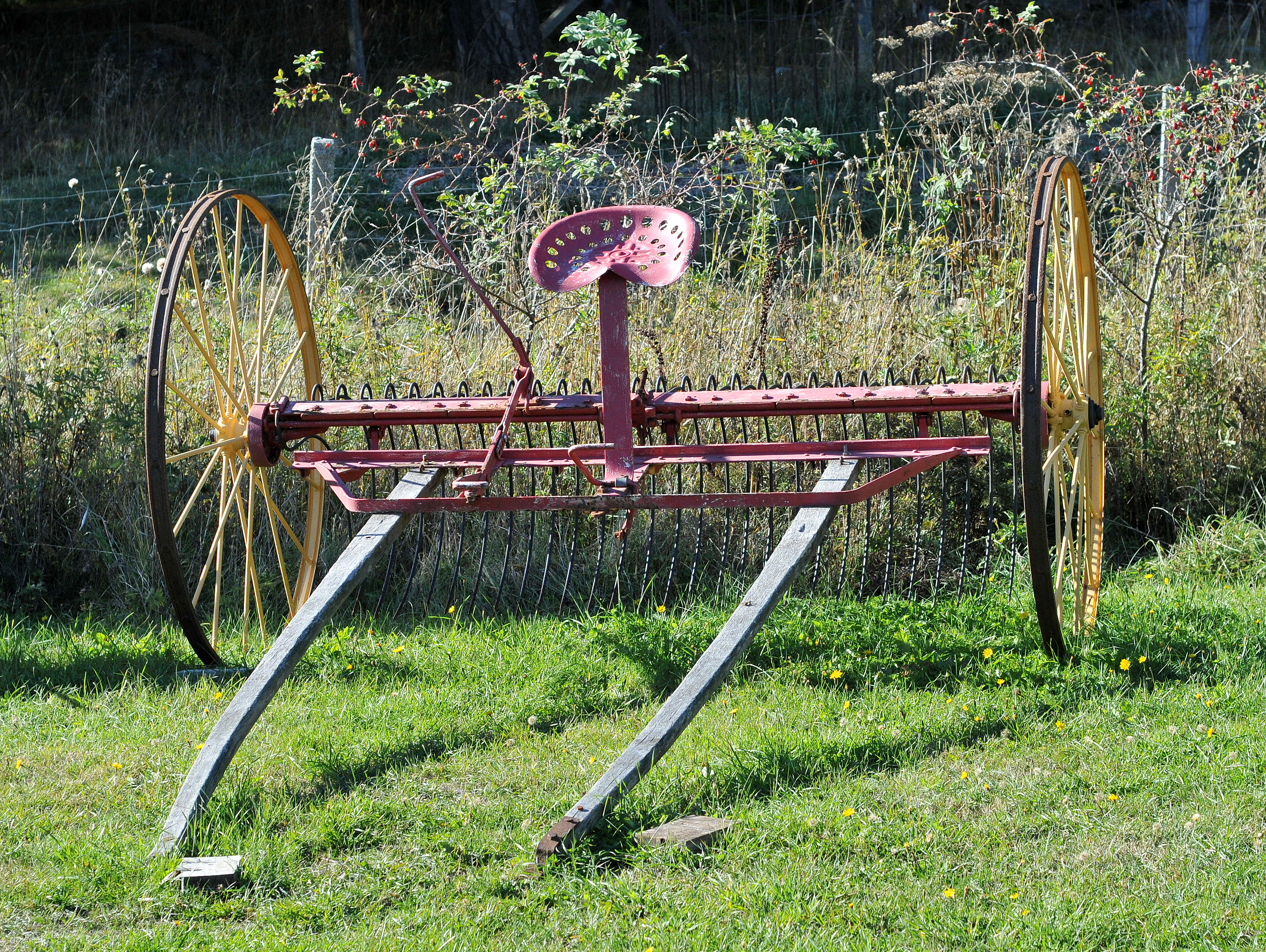 Hästräfsa vid Stendörrens naturreservat, Sverige.